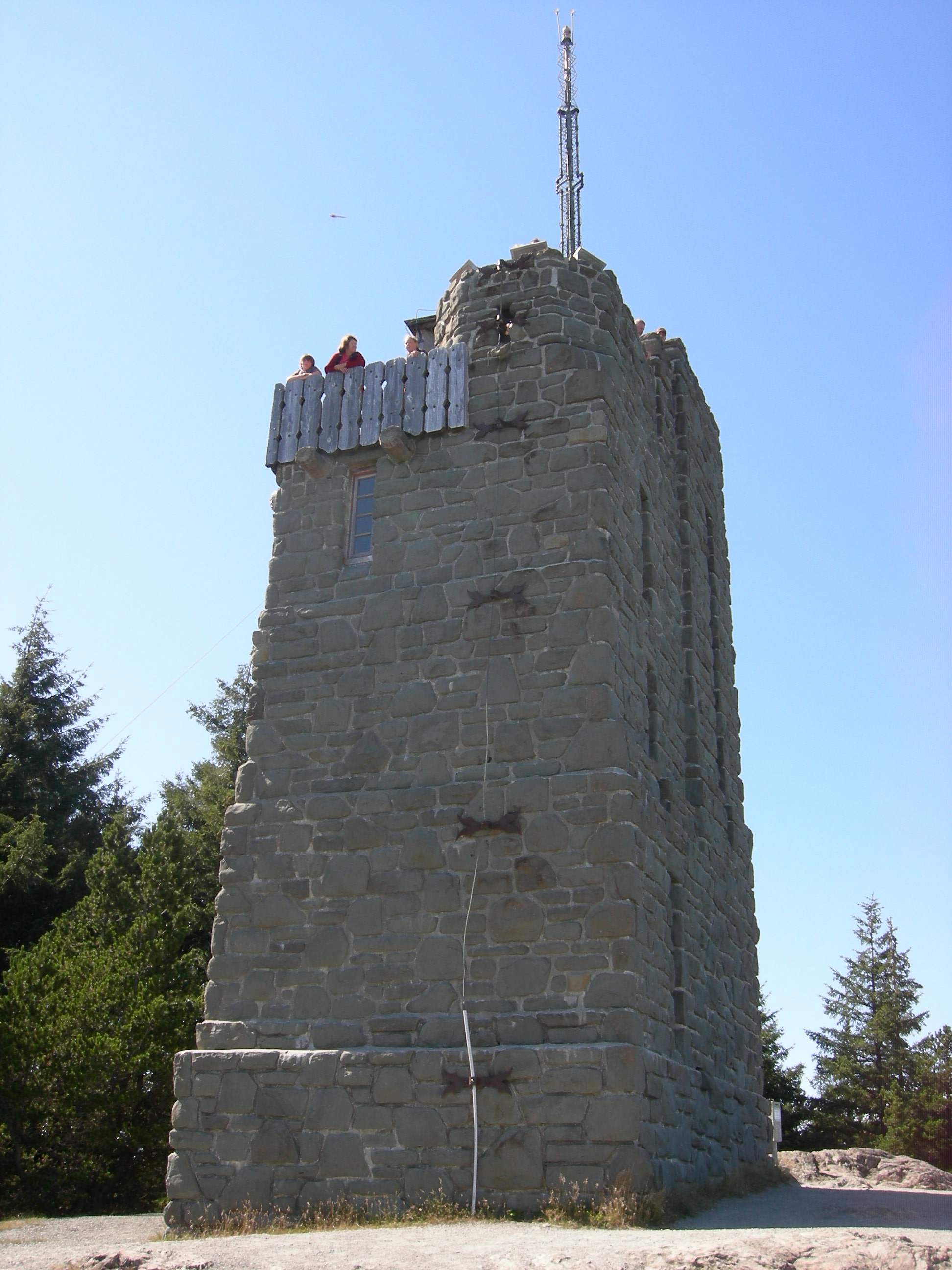 Observation tower, Mt. Constitution, Moran State Park, Orcas Island, Washington, USA. The 53-foot sandstone tower, reinforced with 2 tons of steel, measures 18 x 28 feet at the base. It was designed by architect Ellsworth Storey and built in 1935–36 by members of the Civilian Conservation Corps.